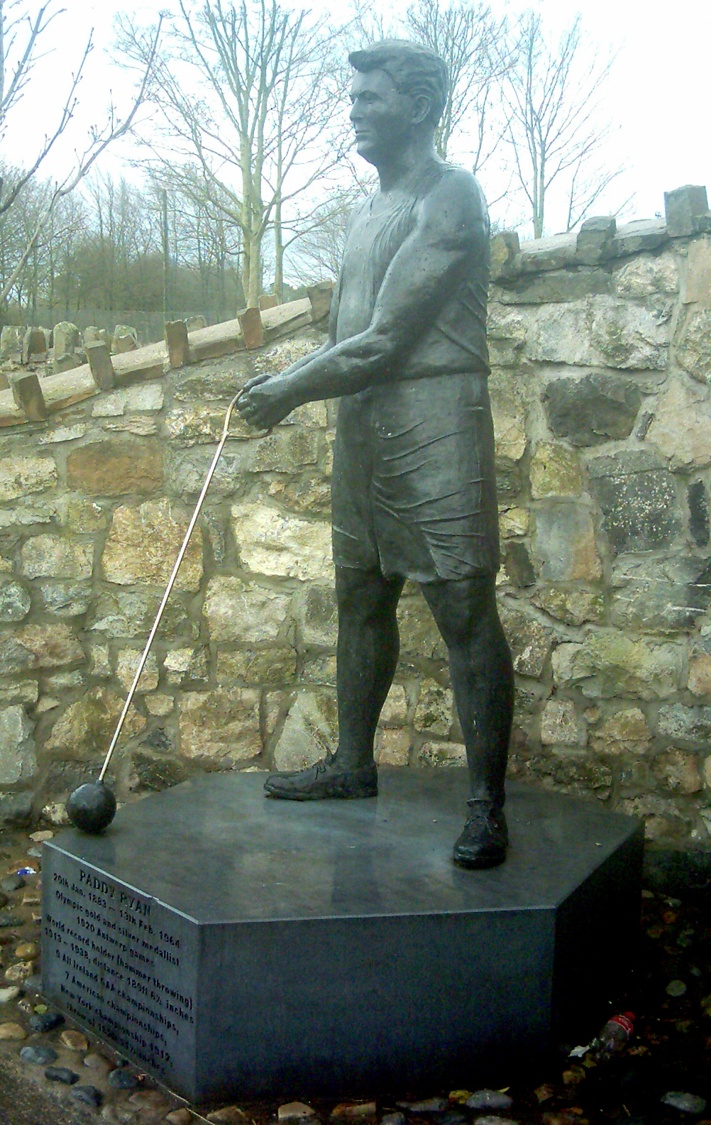 A statue of hammer thrower Patrick Ryan in Pallasgreen, County Limerick, Ireland.